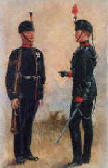 Illustration of soldiers of the King's Royal Rifle Corps in dress of period circa. 1895-1914.